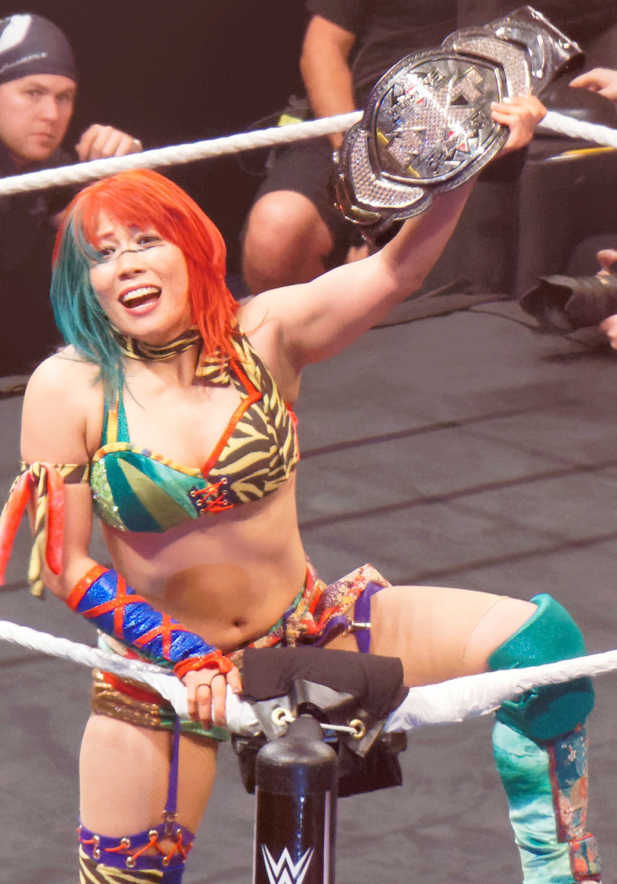 Asuka posing with the NXT Women's Championship belt after defeating Bayley at the NXT Takeover: Dallas event in April 1, 2016.